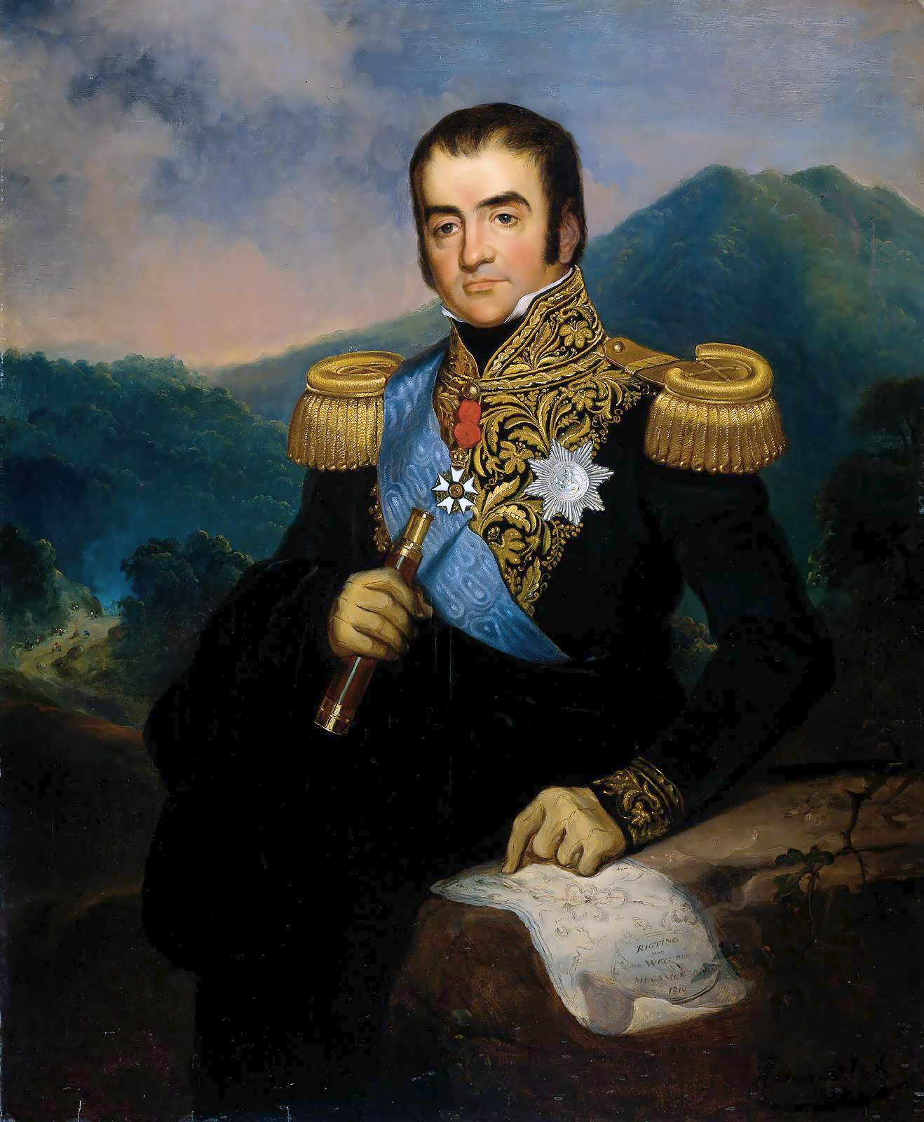 Posthumous portrait of Herman Willem Daendels, Governor-General of the Dutch East Indies from 1808 to 1810, based on a miniature dated 1816 by French artist S.J. Rochard. Part of the Governors-general series.